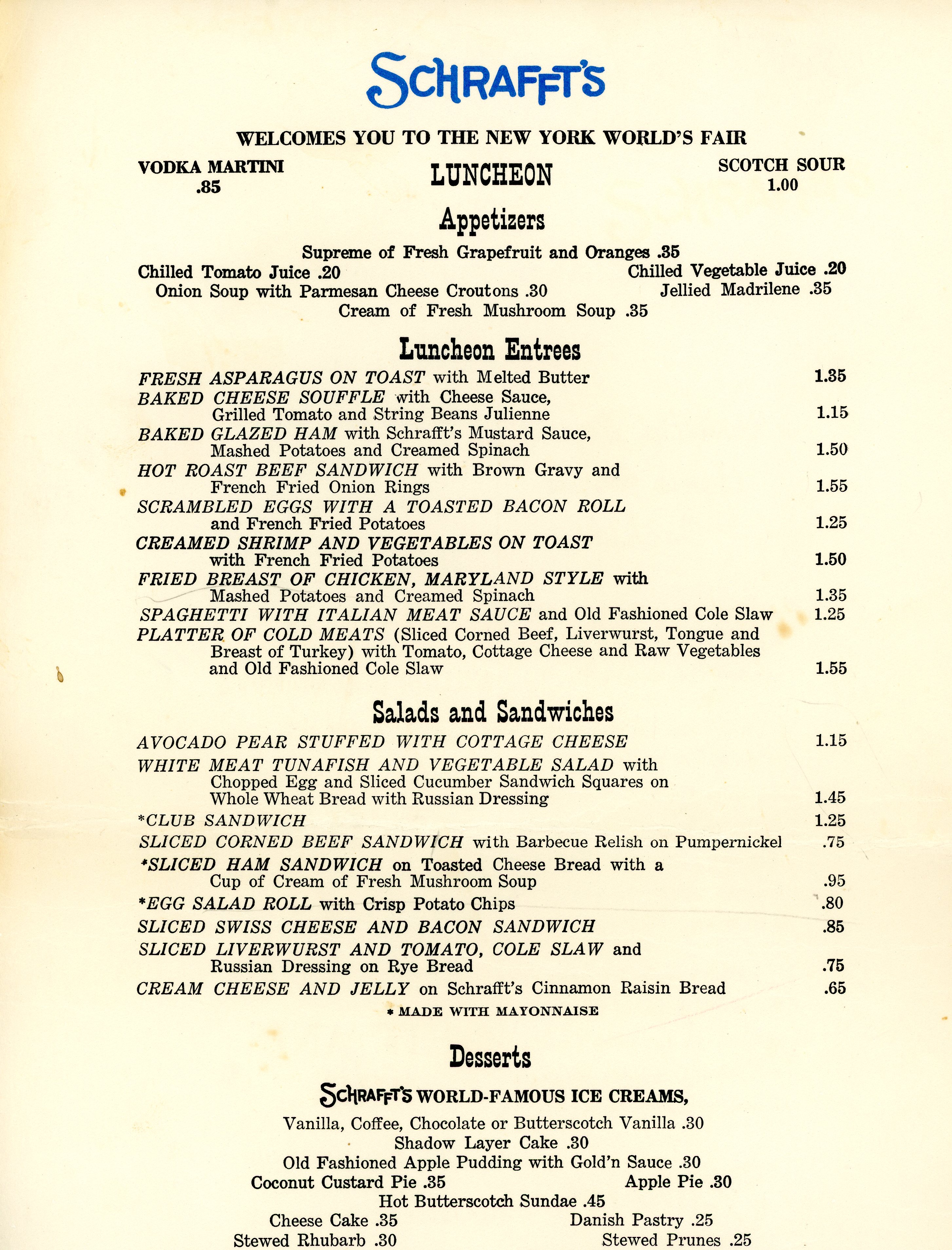 Straight's World Fair Menu....